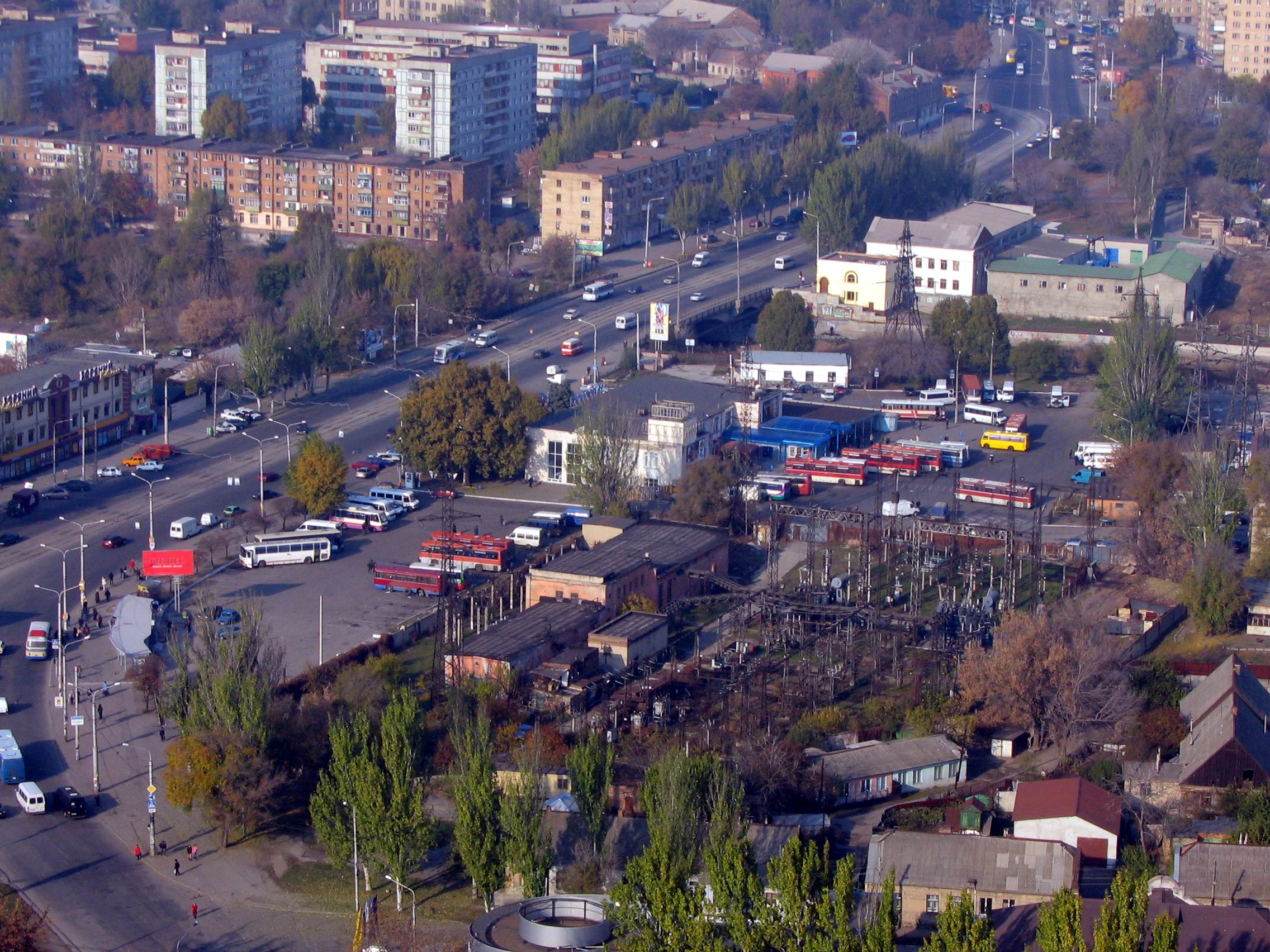 Zaporizhia